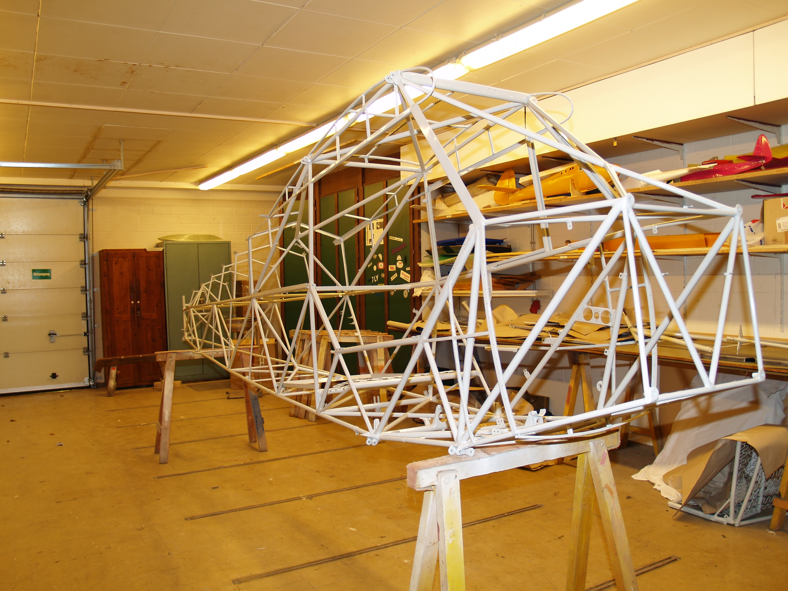 The fuselage of a Piper PA 18 without the covering during a major overhaul.